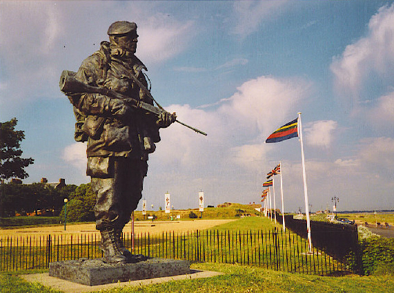 "The Yomper" Statue of a Royal Marine at Eastney Barracks, now the Royal Marines Museum. The "Yompers" walked across East Falkland to liberate Port Stanley from Argentinian occupation in 1982.